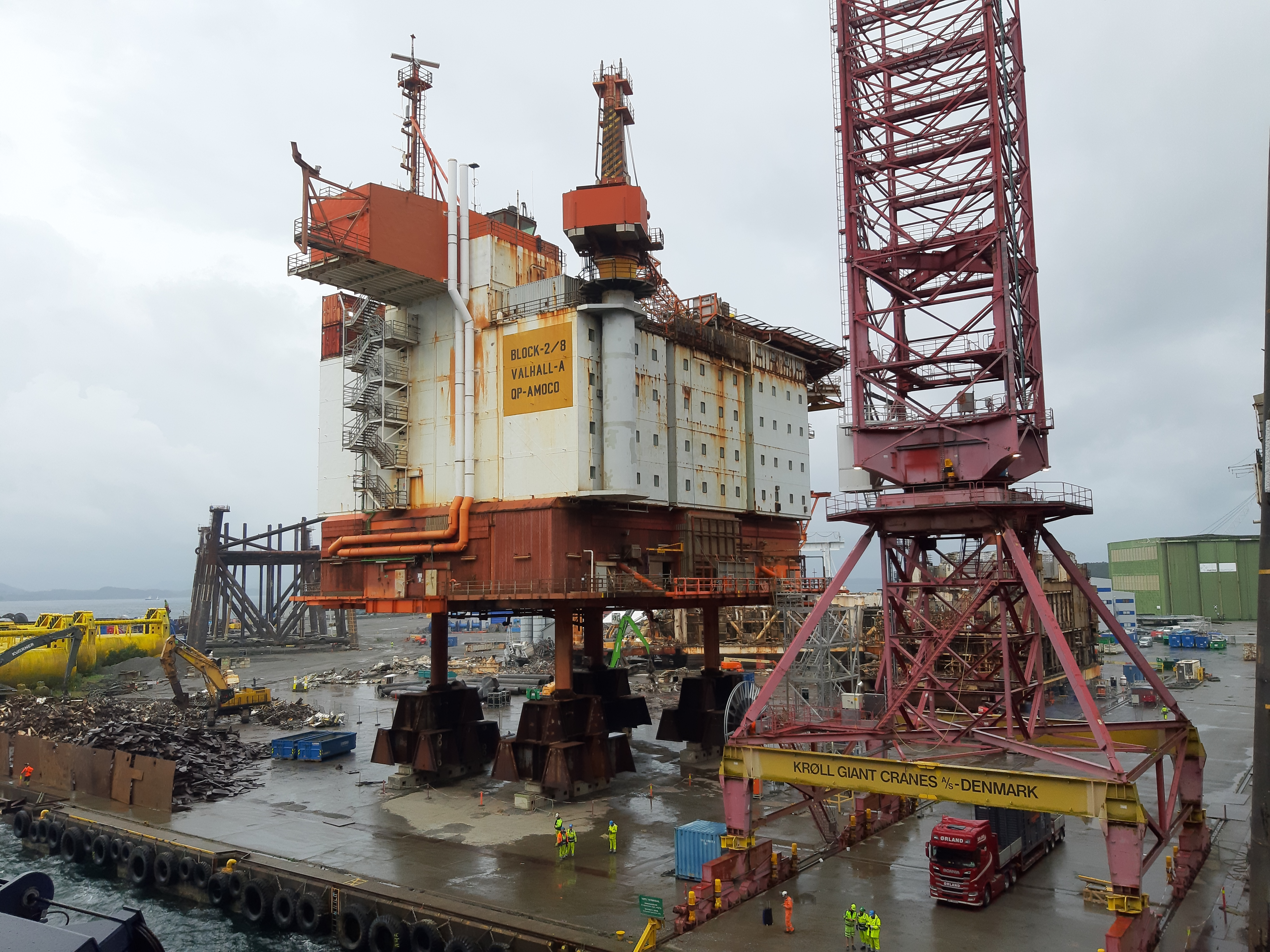 Accomodation platform of the VALHALL-A oil field at the Norwegian demolition yard in Leirvik, 2019-08-30